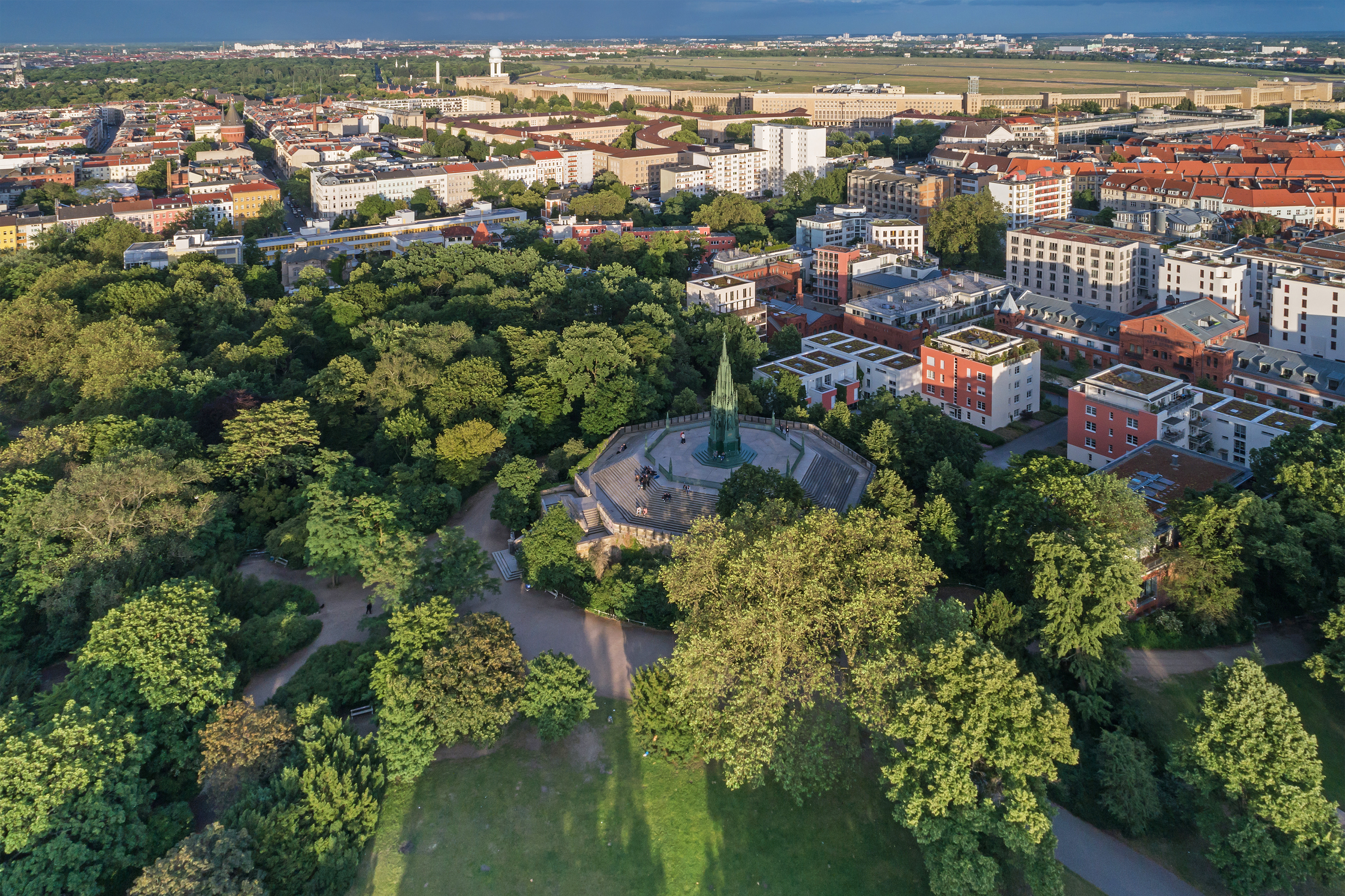 Aerial photo of Viktoriapark Kreuzberg in Berlin (Germany)